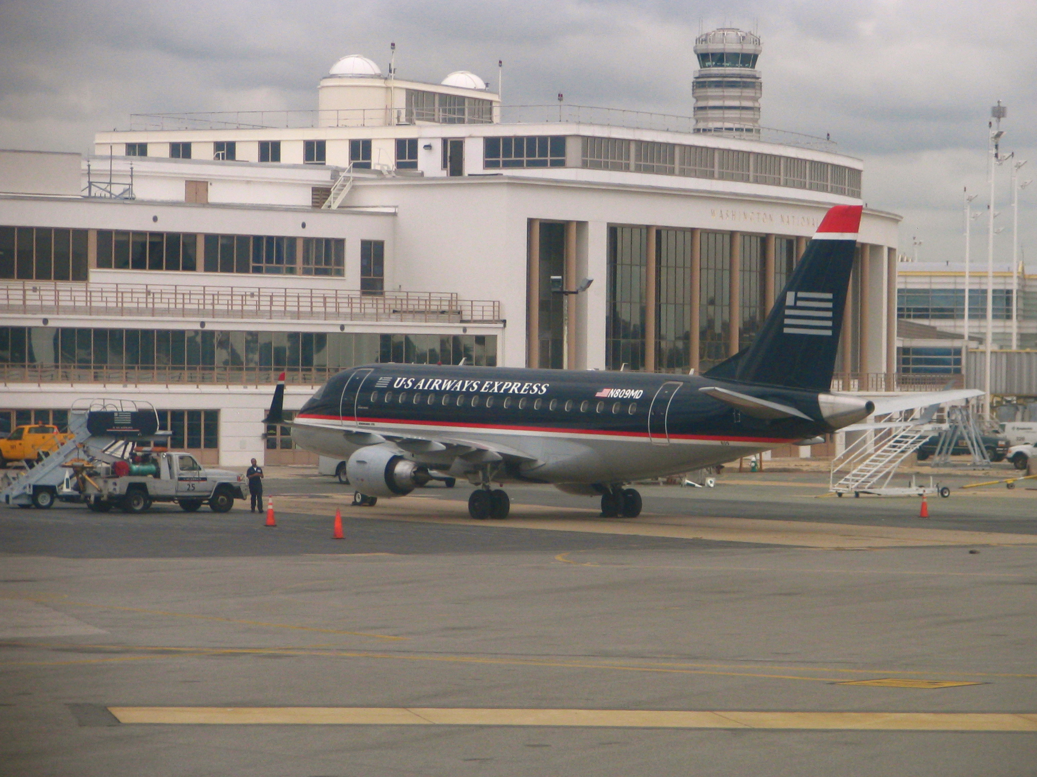 US Airways Express Embraer 170 operated by Republic Airlines at Ronald Reagan Washington National Airport